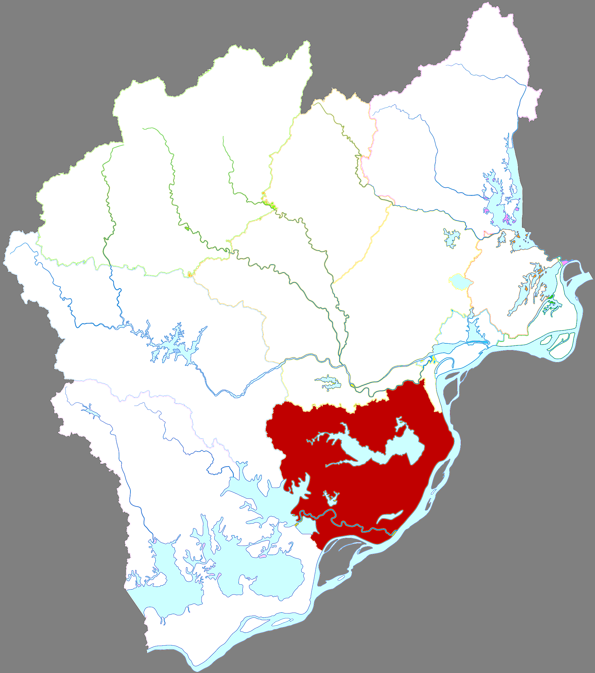 Location of Wangjiang county in Anqing city, China